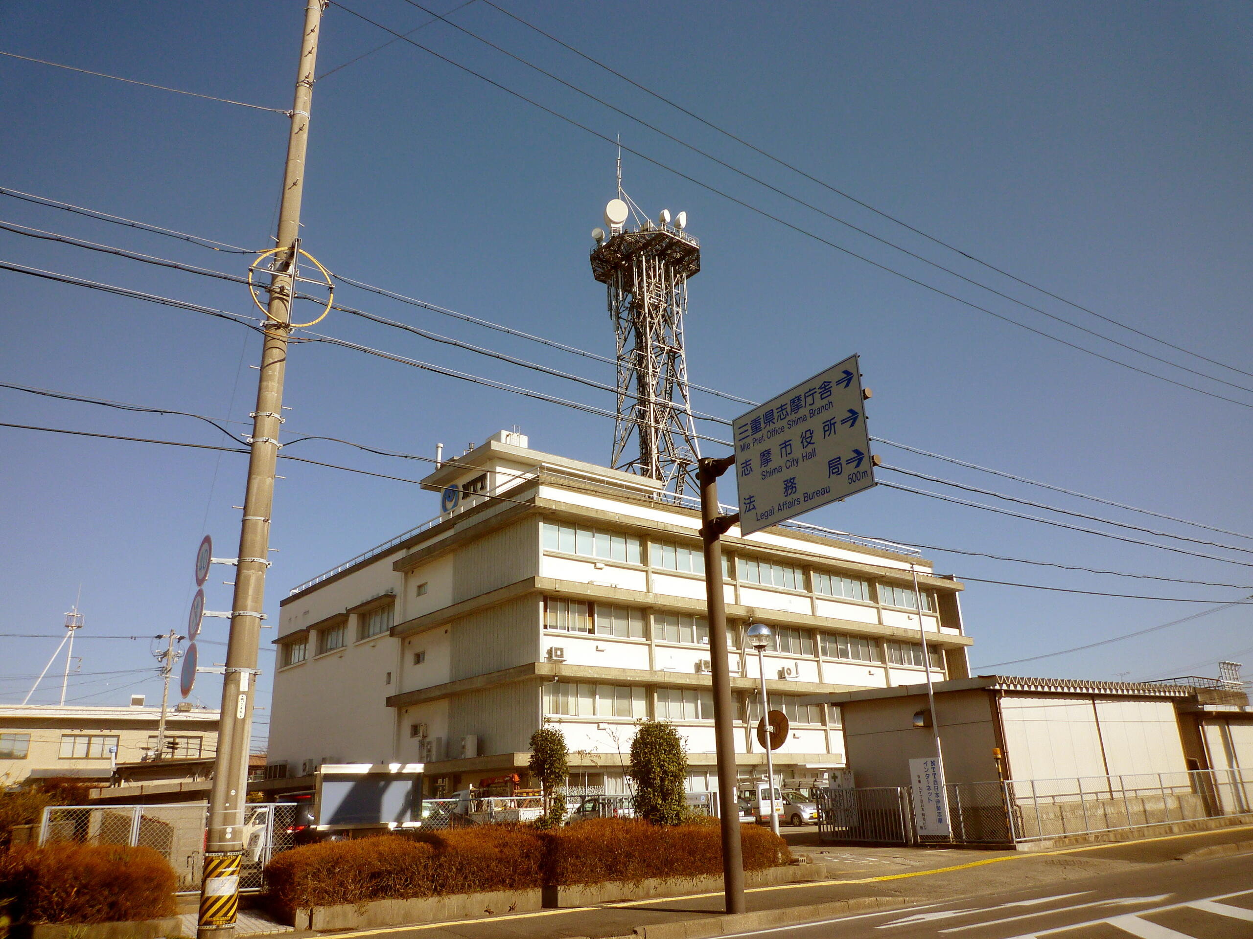 The "NTT Ago Building" in Ago-chō-Ugata, Shima City,Mie Prefecture,Japan.